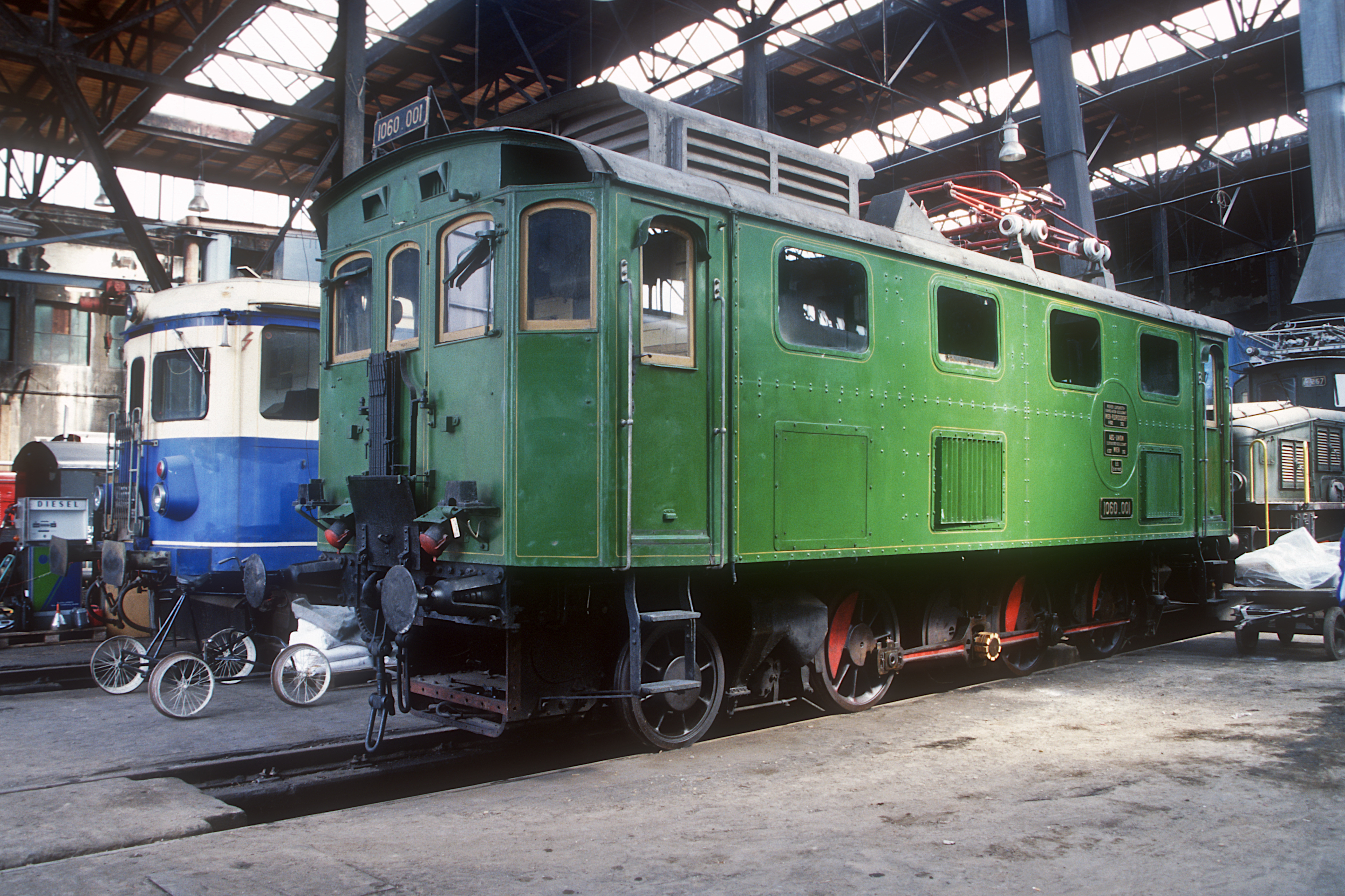 During the resoration of the technical Museum in Vienna 1060.001 was temporarily stored at the Straßhof railway museum